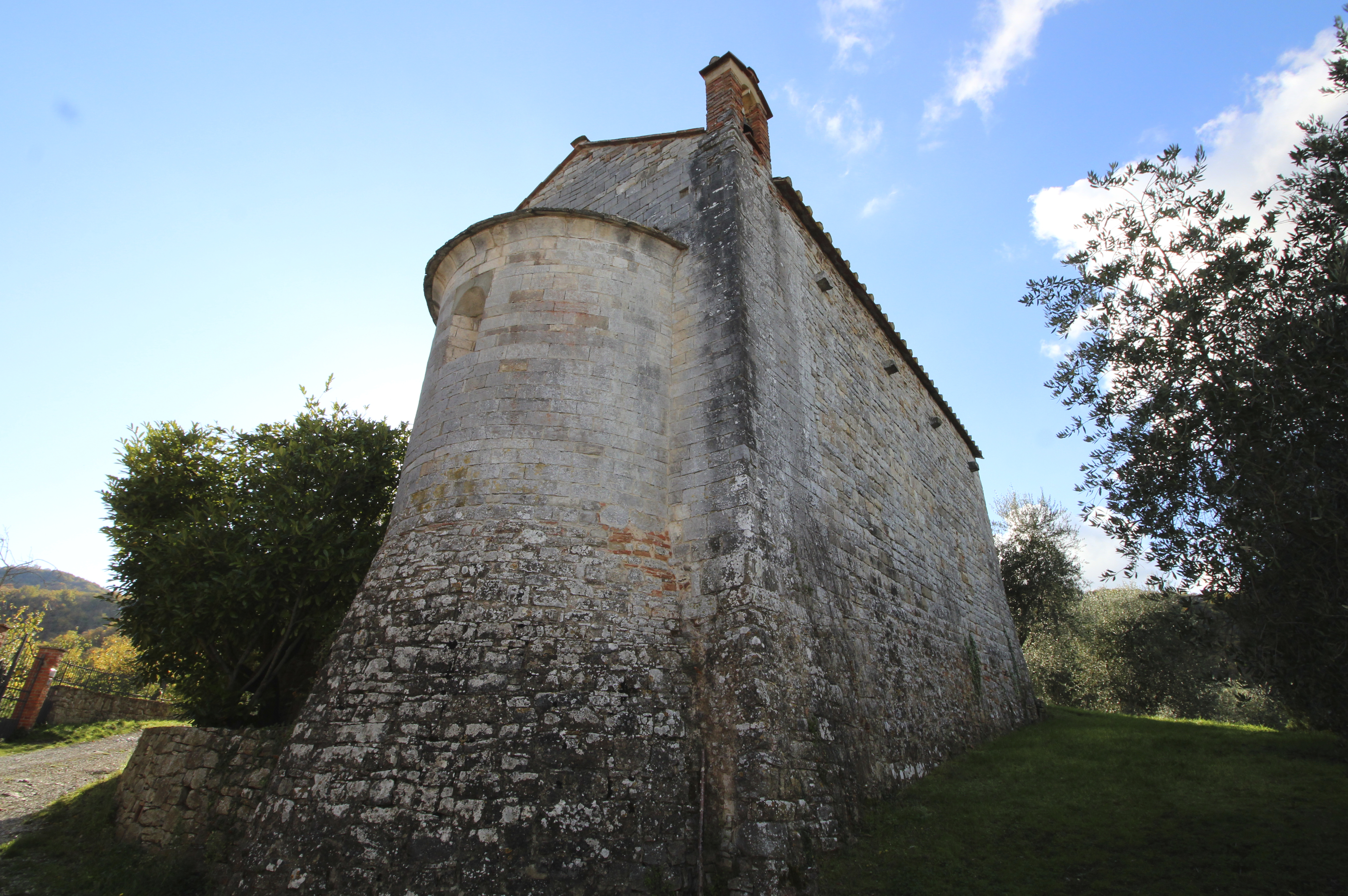 Church San Pancrazio, Cavriglia, Province of Arezzo, Tuscany, Italy